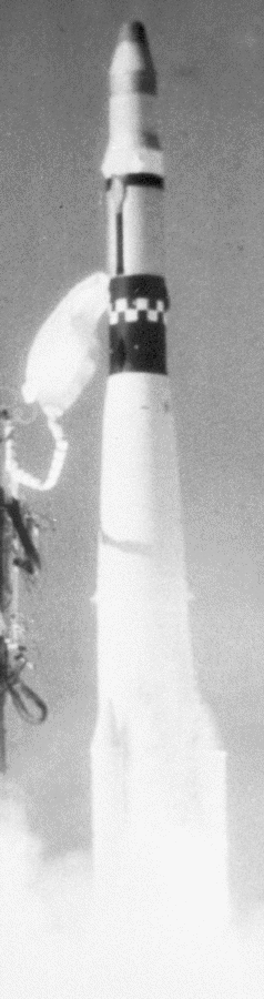 Launch of rocket Thor SLV-2A Agena D with satellite Corona 88.